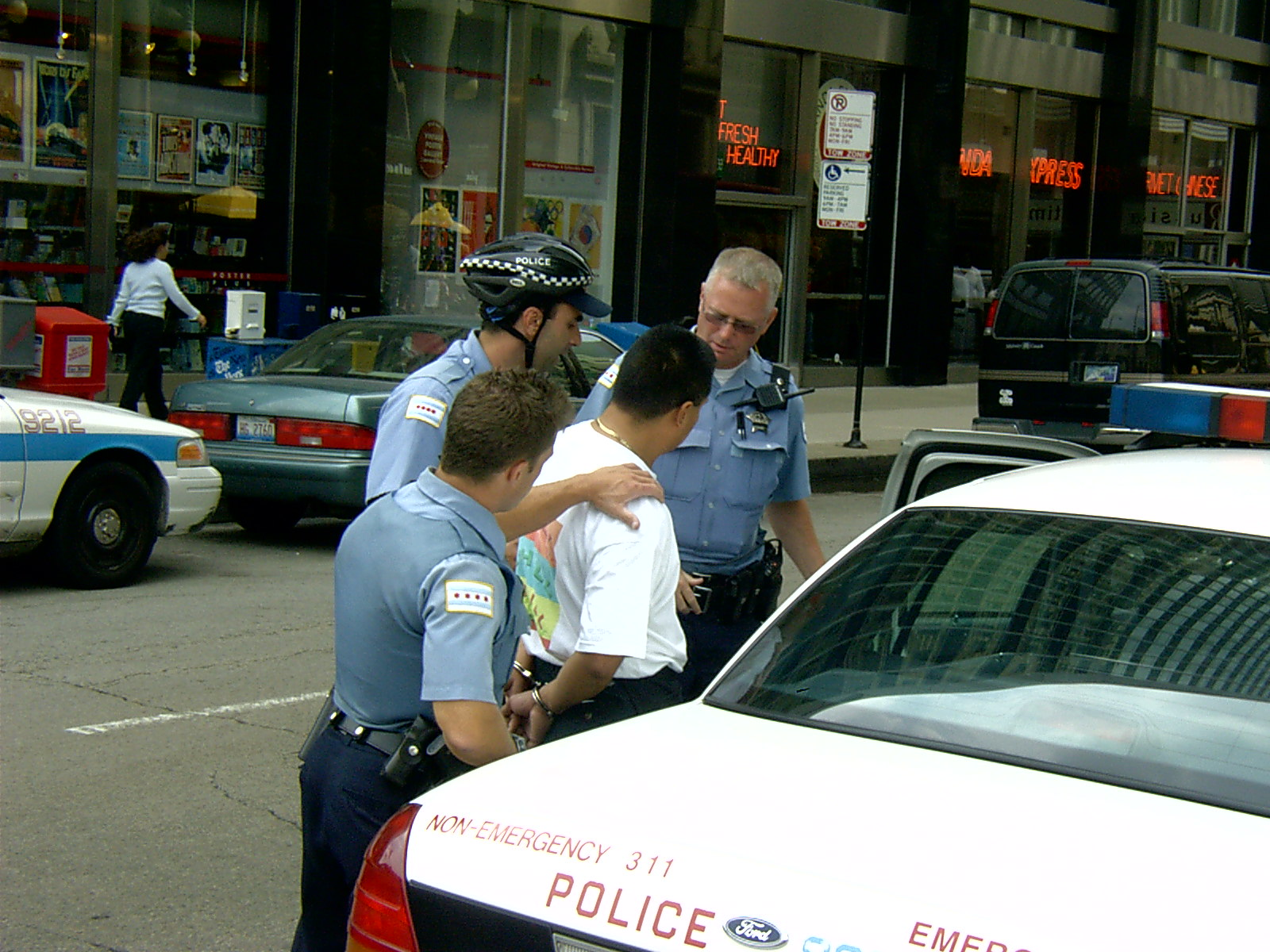 A man being arrested by the Chicago police department.